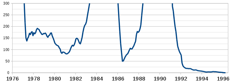 Argentina inter-annual inflation between 1976 and 1996. Source: INDEC